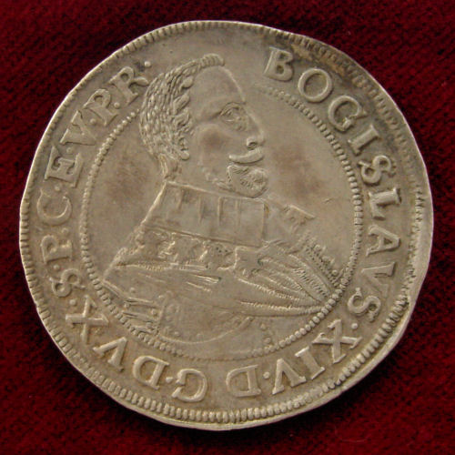 Coin (thaler) of Boguslaw XIV, from museum: Castle of Dukes of Pomerania, Darłowo, Poland